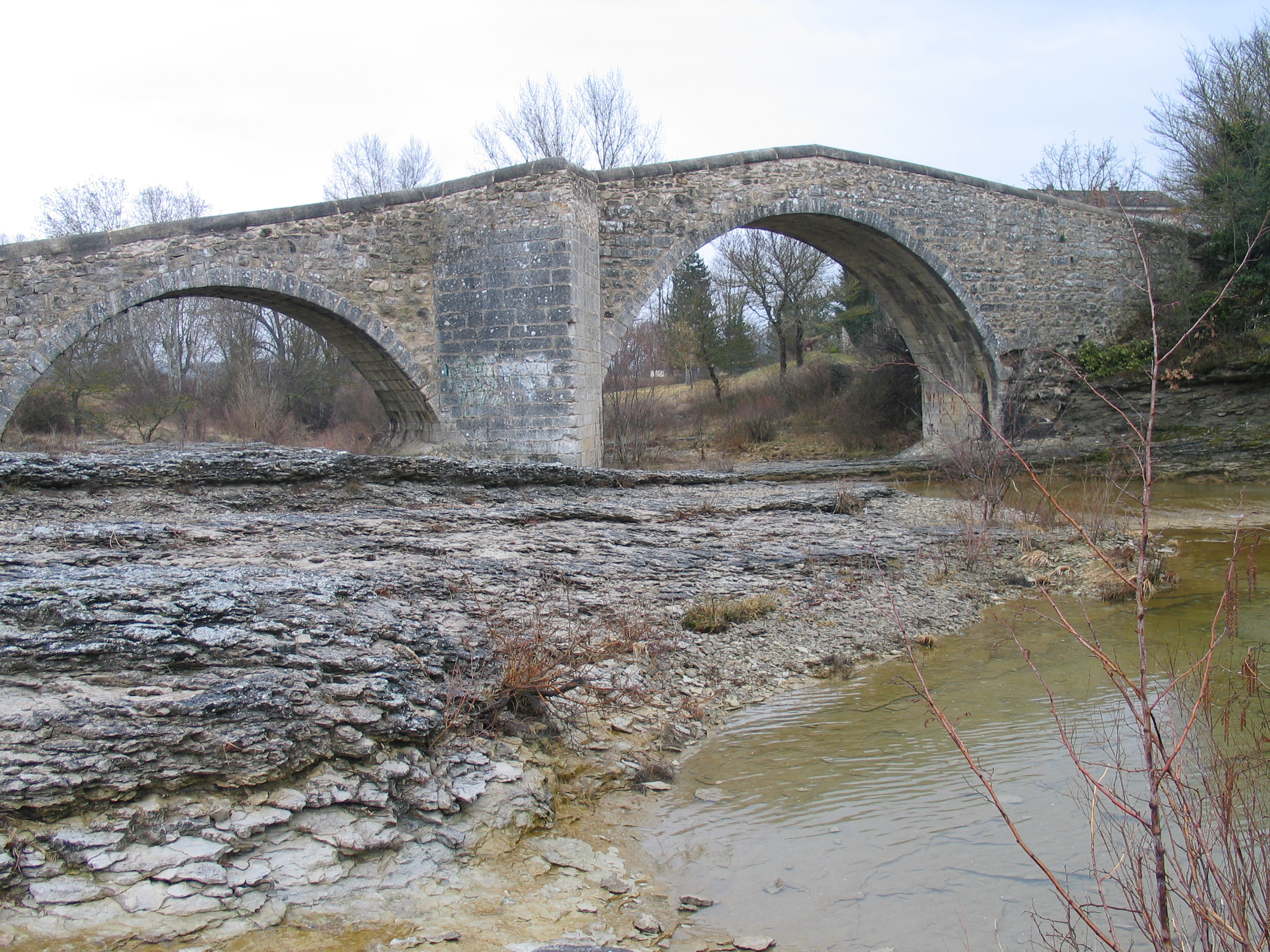 The Pont sur Laye near Mane, Alpes-de-Haute-Provence department, Provence, France